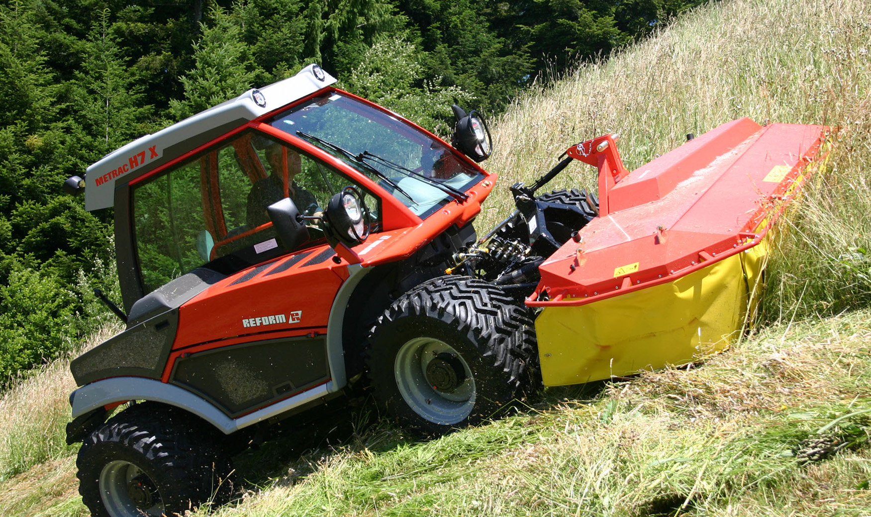 Two-axle mower Reform Metrac H7 X